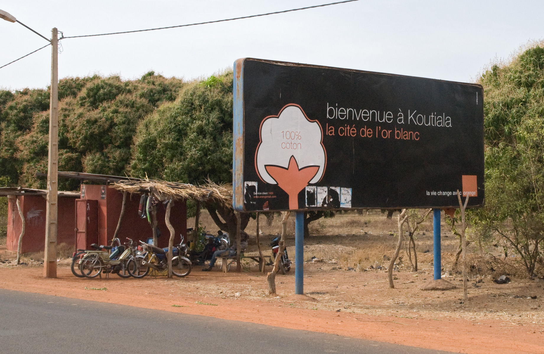 Billboard publicizing Koutiala as the city of the white gold (cotton) (February 2015)